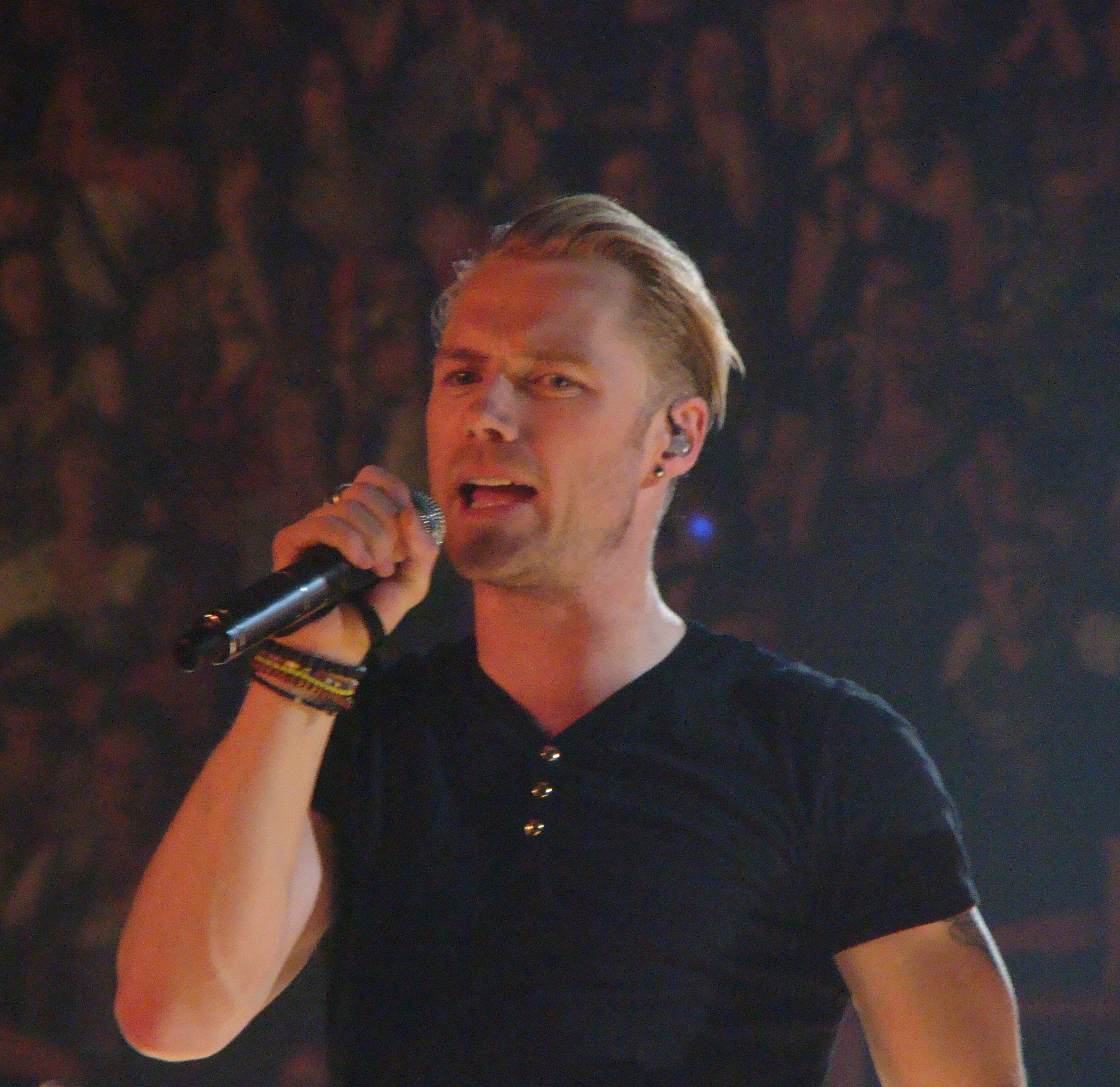 Ronan Keating with Boyzone